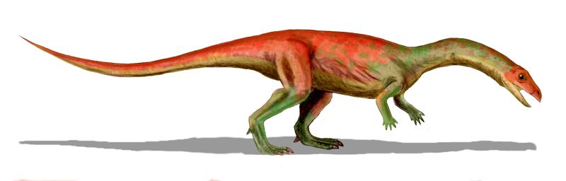 Effigia okeeffeae, an archosaur from the Late Triassic of New Mexico, pencil drawing